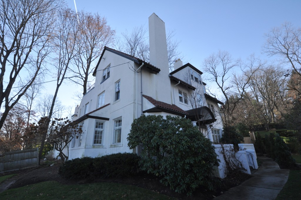 The Reginald A. Fessenden House in Newton, Massachusetts.